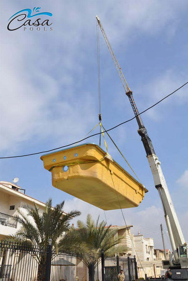 CASA POOLS, A Luxury Fiberglass Swimming Pool